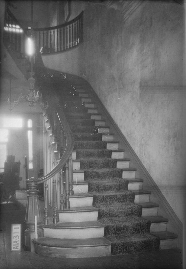 Rocky Hill, State Highway 20, Courtland vicinity, Lawrence County, AL. WINDING STAIR TOWARD S, THROUGH FRONT DOOR.